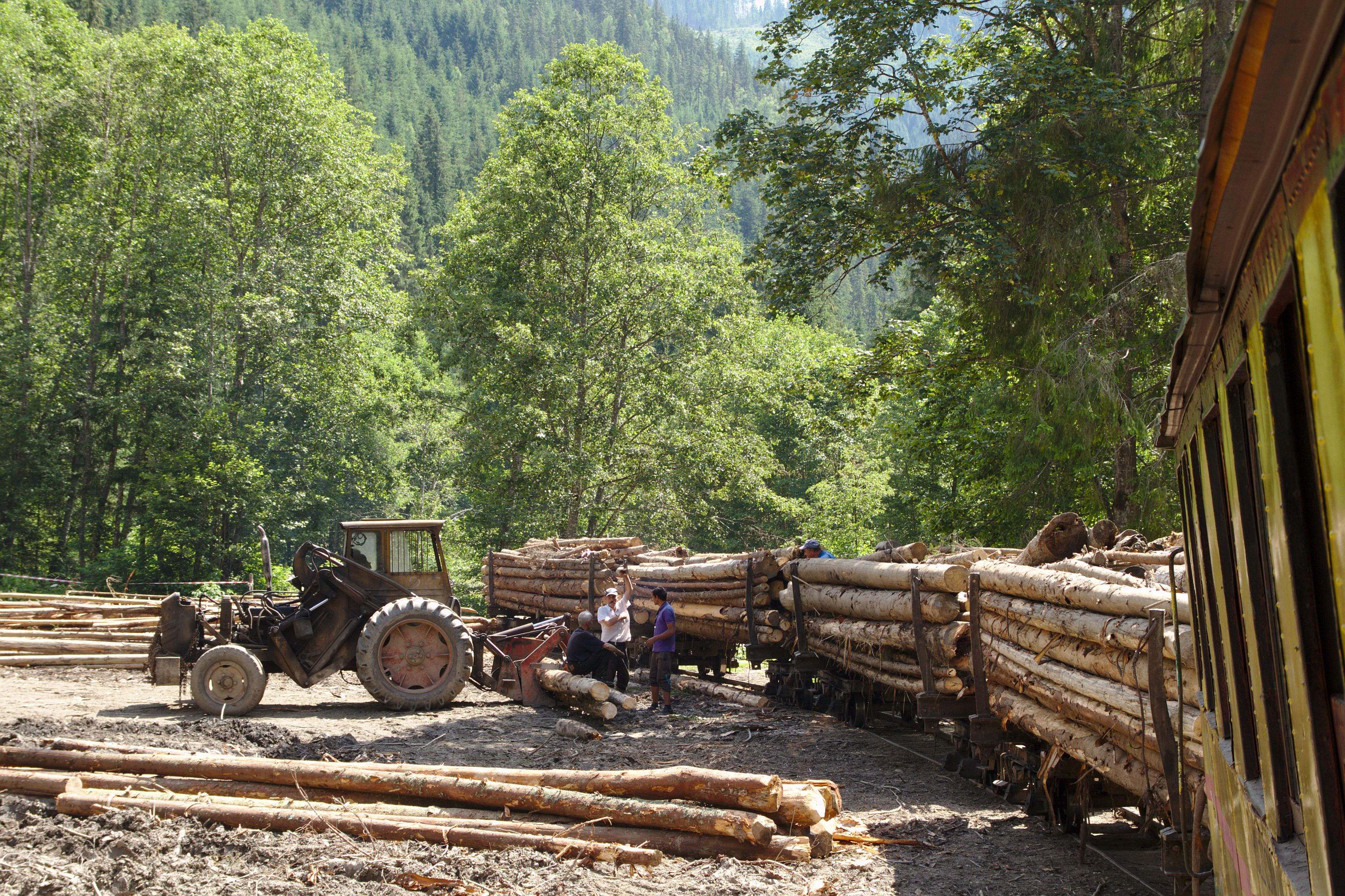 Loading logs onto a train somewhere along the line using a log loader.